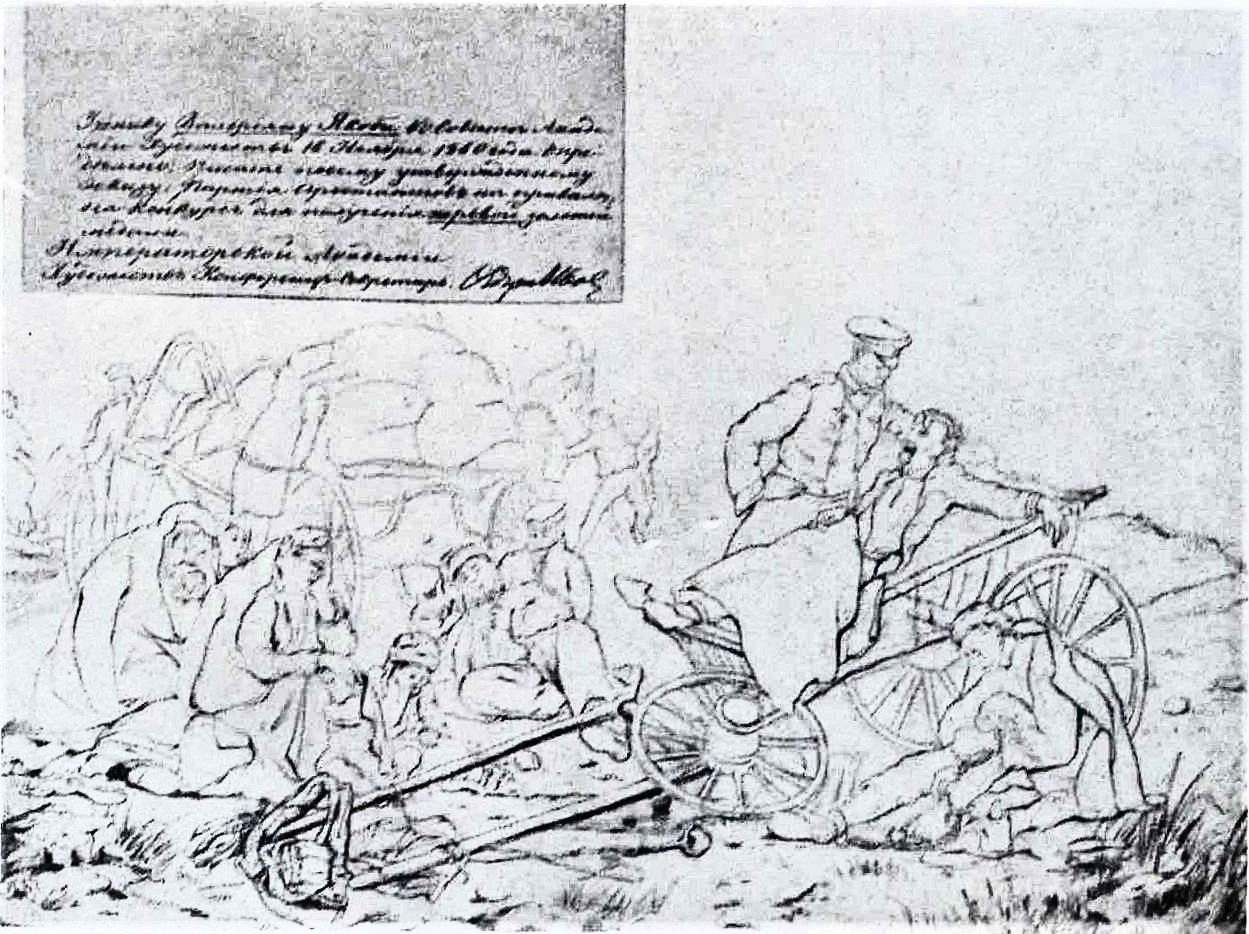 Halt for prisoners (sketch by Valery Jacobi, 1860)